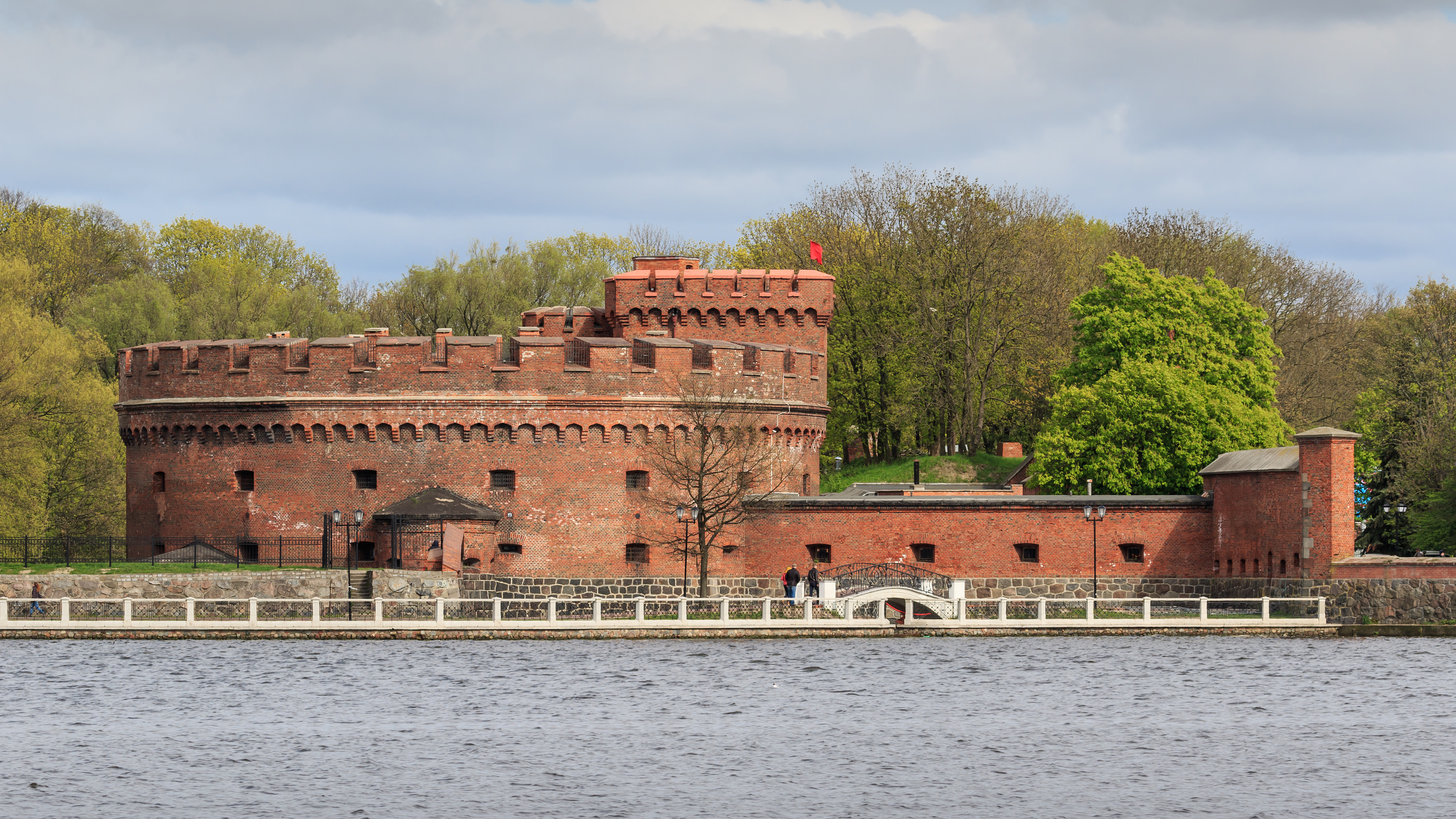 Dohna Tower in Kaliningrad formerly Königsberg, Kaliningrad Oblast (Russia).